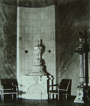 Nadezhino Palace. One of the rooms.